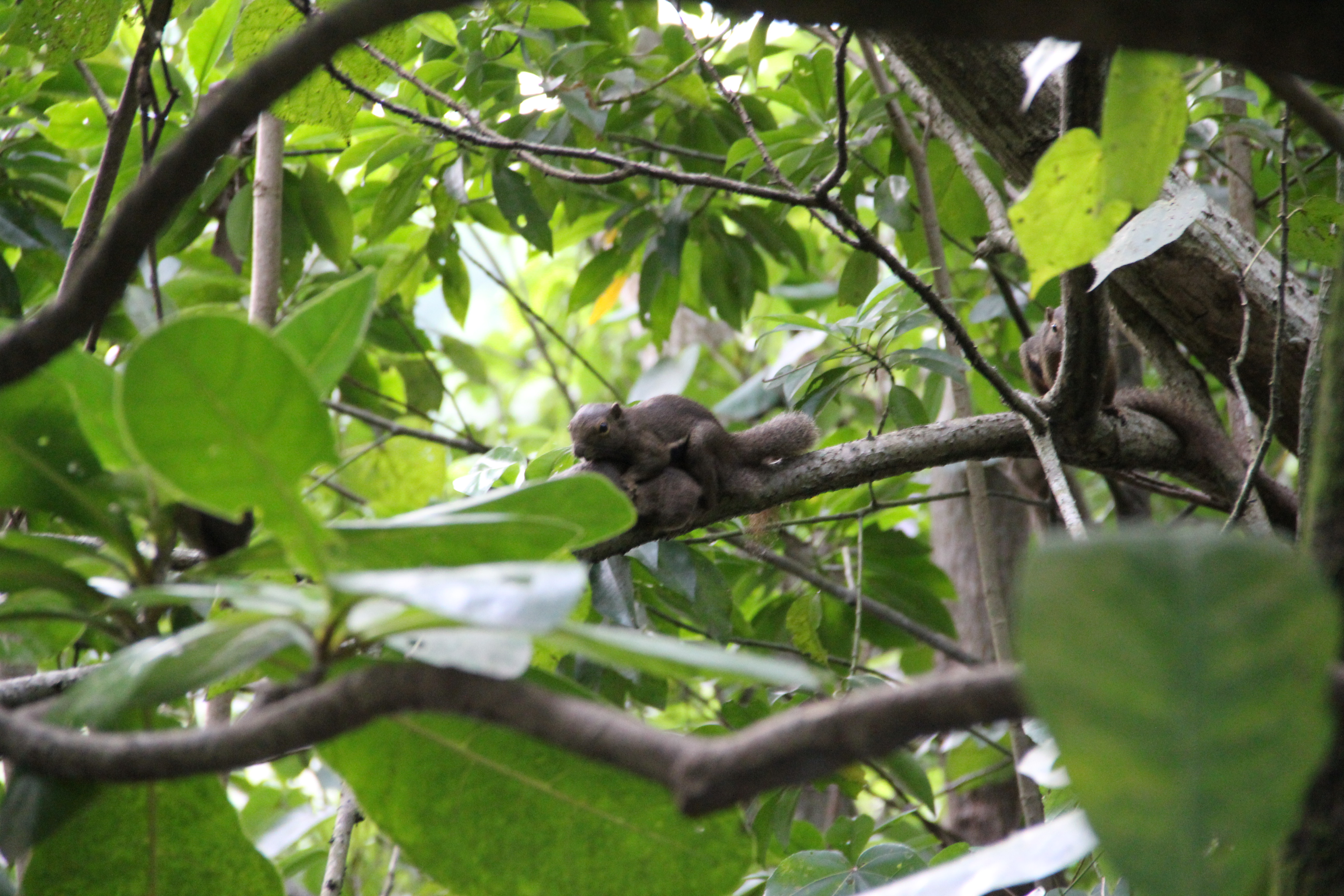 Squirrels mating on a tree branch.